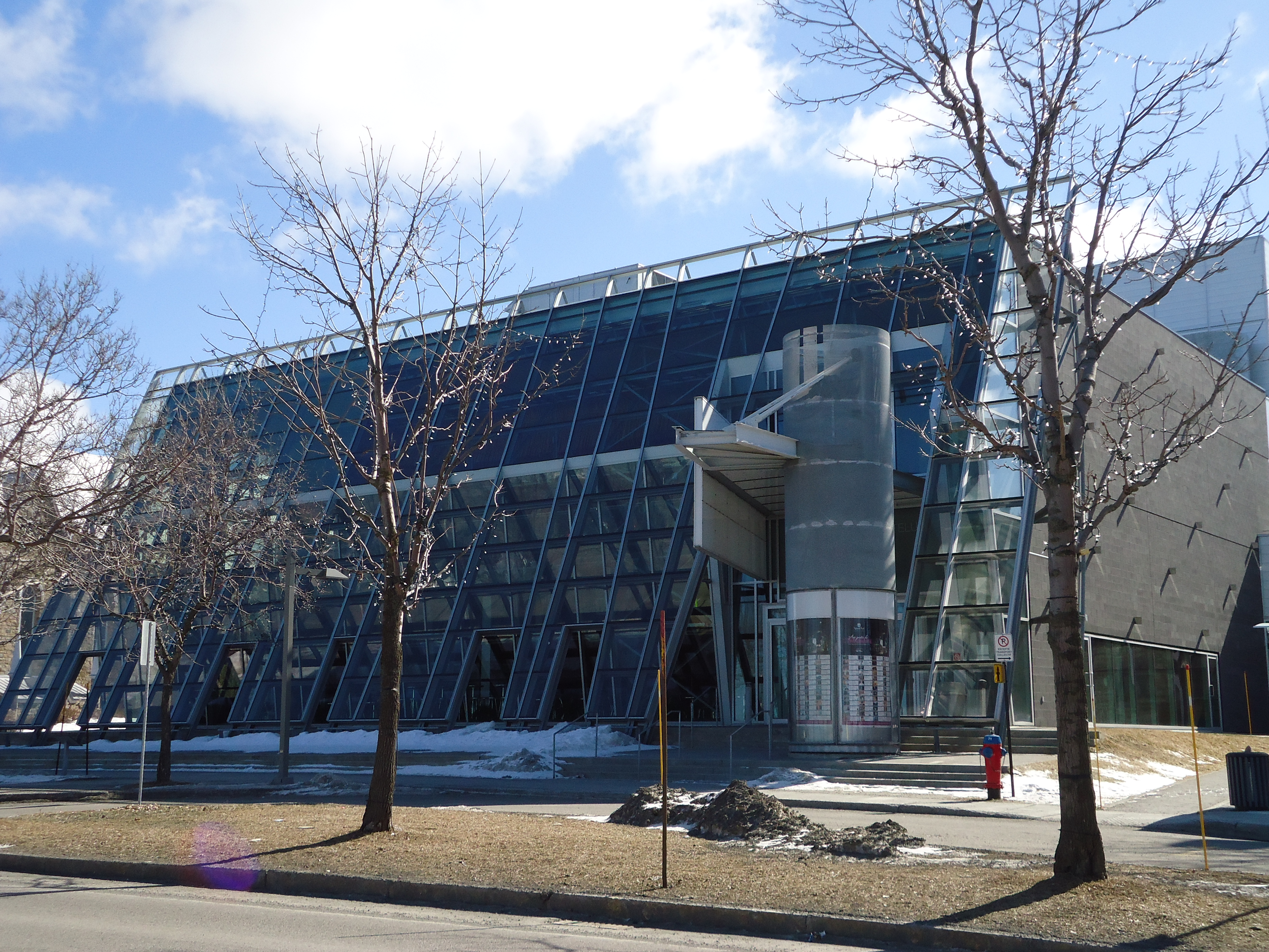 The Desjardins-Telus Theatre in Rimouski in winter (detail)